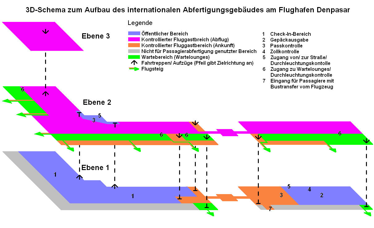 scheme of international terminal at Denpasar Airport